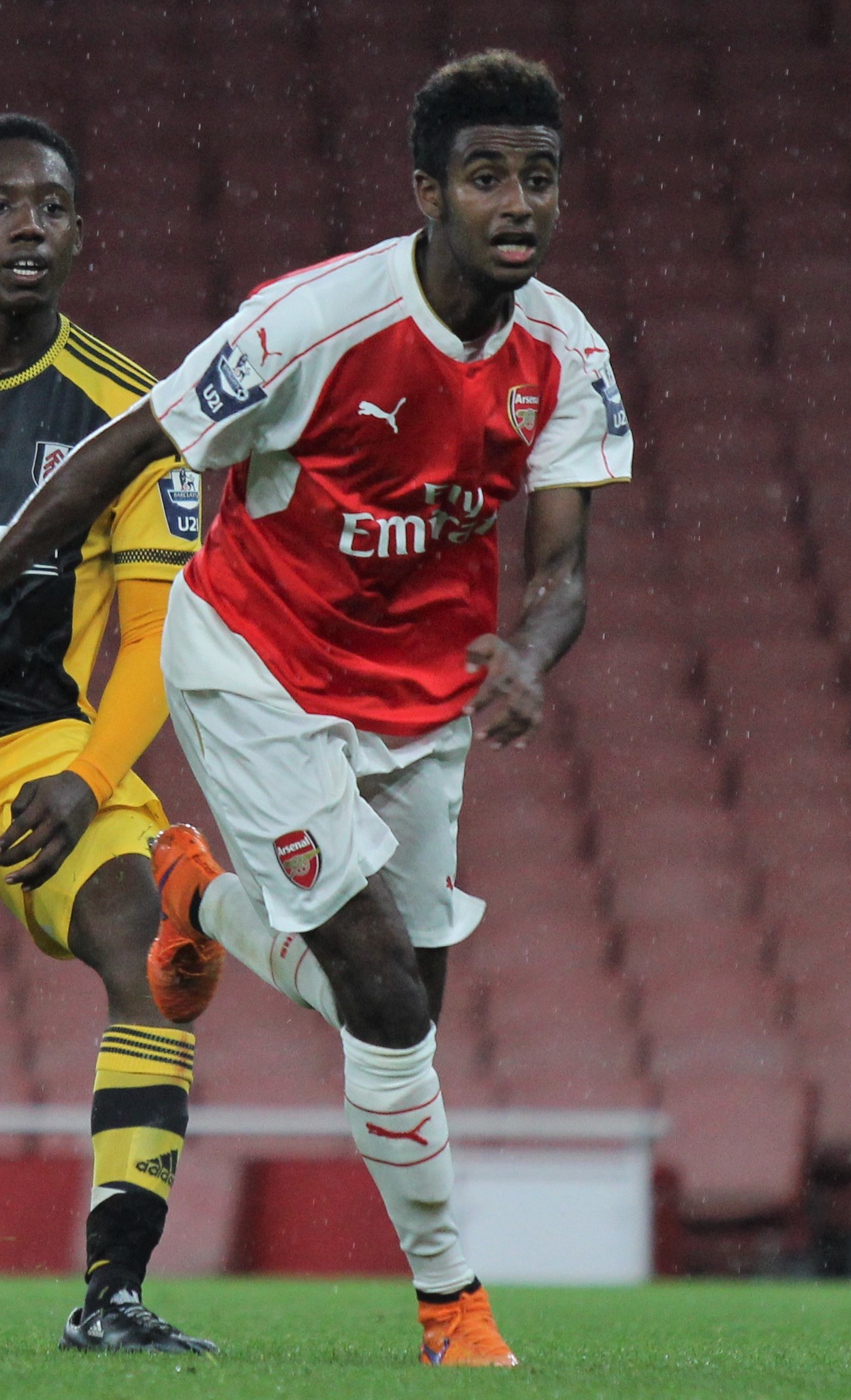 Gedion Zelalem of Arsenal U21s shoots at goal during the game against Fulham.